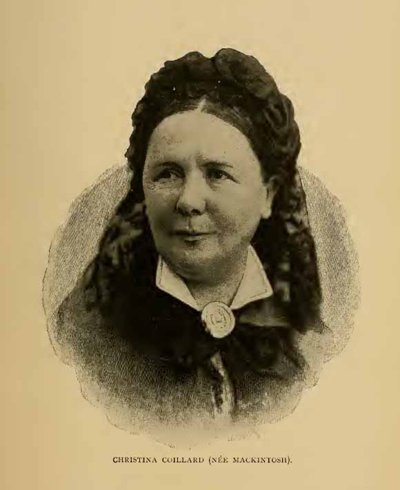 Portrait of Christina Coillard wife of François Coillard, author of - "On the Threshold of Central Africa" - American Tract Society, New York (1903)